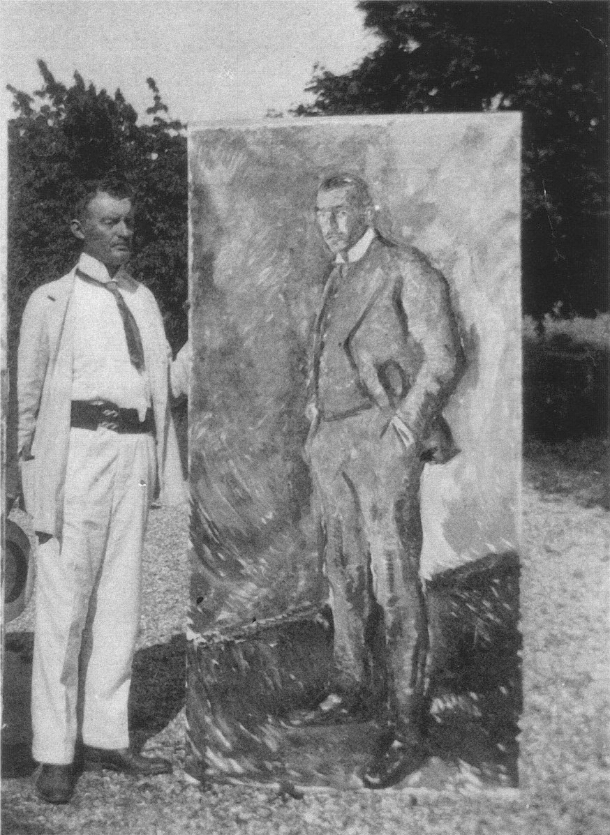 Edvard Munch with his Portrait of Jappe Nilssen